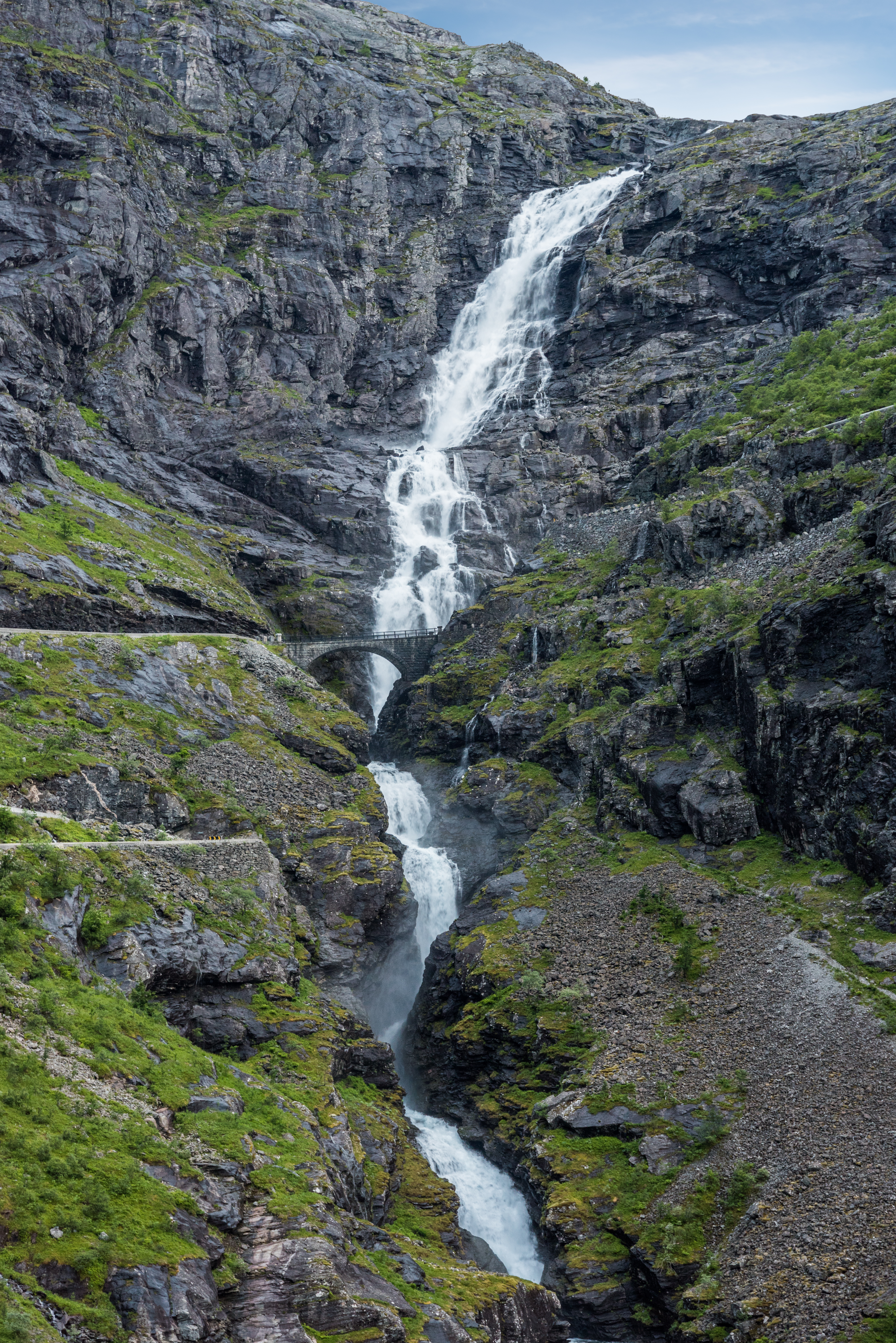 The steep road up Trollstigen (The troll road), a spectacualr mountain located in Norway